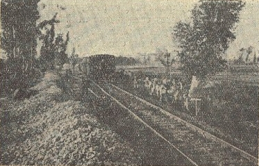 Trackwork during the expansion of the Pinhal Novo railway station, in Alentejo, Portugal. The photograph shows the first train to use a new track section. This image was published in the Gazeta dos Caminhos de Ferro magazine No. 1127, of 1st December 1934, and scanned by the Hemeroteca Municipal de Lisboa.